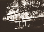 Simi Winery in 1881